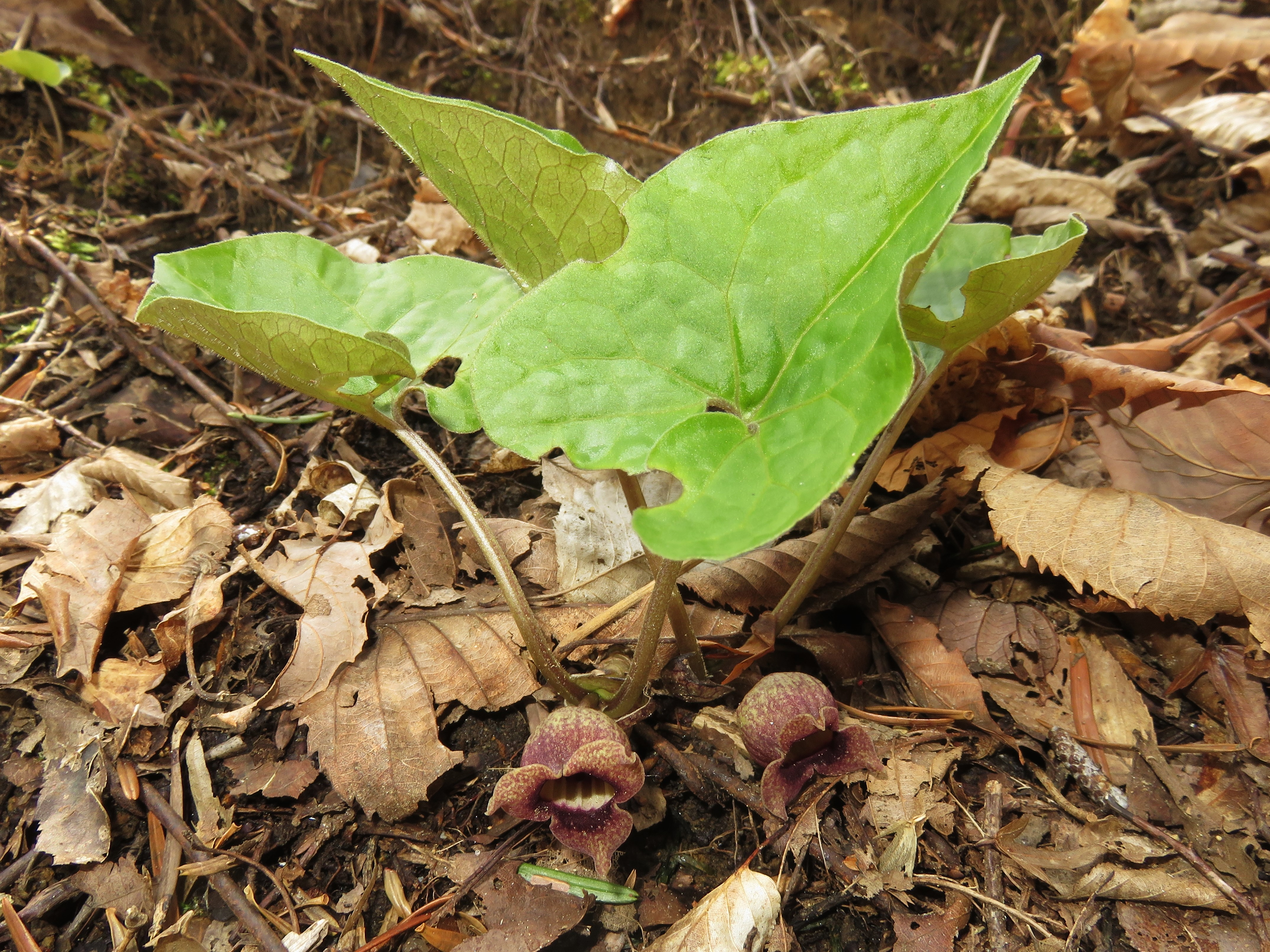 Asarum tohokuense, Hama-dori area, Fukushima pref., Japan